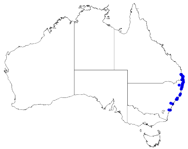 Boronia safrolifera downloaded from Australasian Virtual Herbarium 10 April 2019 using This download included all the environmental overlay fields and ALA's data checking fields including "cultivated / escapee", "outside expert range for species", "latitude is negated", "coordinates are transposed", "taxon misidentified", "habitat incorrect for species", and "suspected outlier" (711 fields). Deleting occurrences for which any of the above were true, 46 specimens with coordinates were deleted.